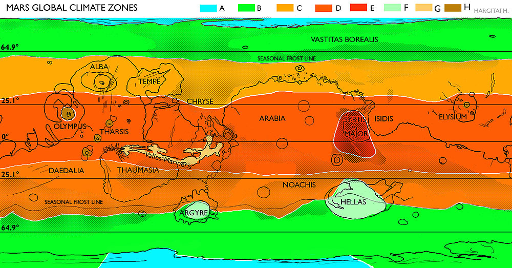 Mars Global Climate Zones, based on temperature, modified by topography, albedo, actual solar radiation. A=Glacial (permanent ice cap); B=Polar (covered by frost during the winter which sublimates during the summer); C=North (mild) Transitional (Ca) and C South (extreme) Transitional (Cb); D= Tropical; E= Low albedo tropical; F= Subpolar Lowland (Basins); G=Tropical Lowland (Chasmata); H=Subtropical Highland (Mountain).